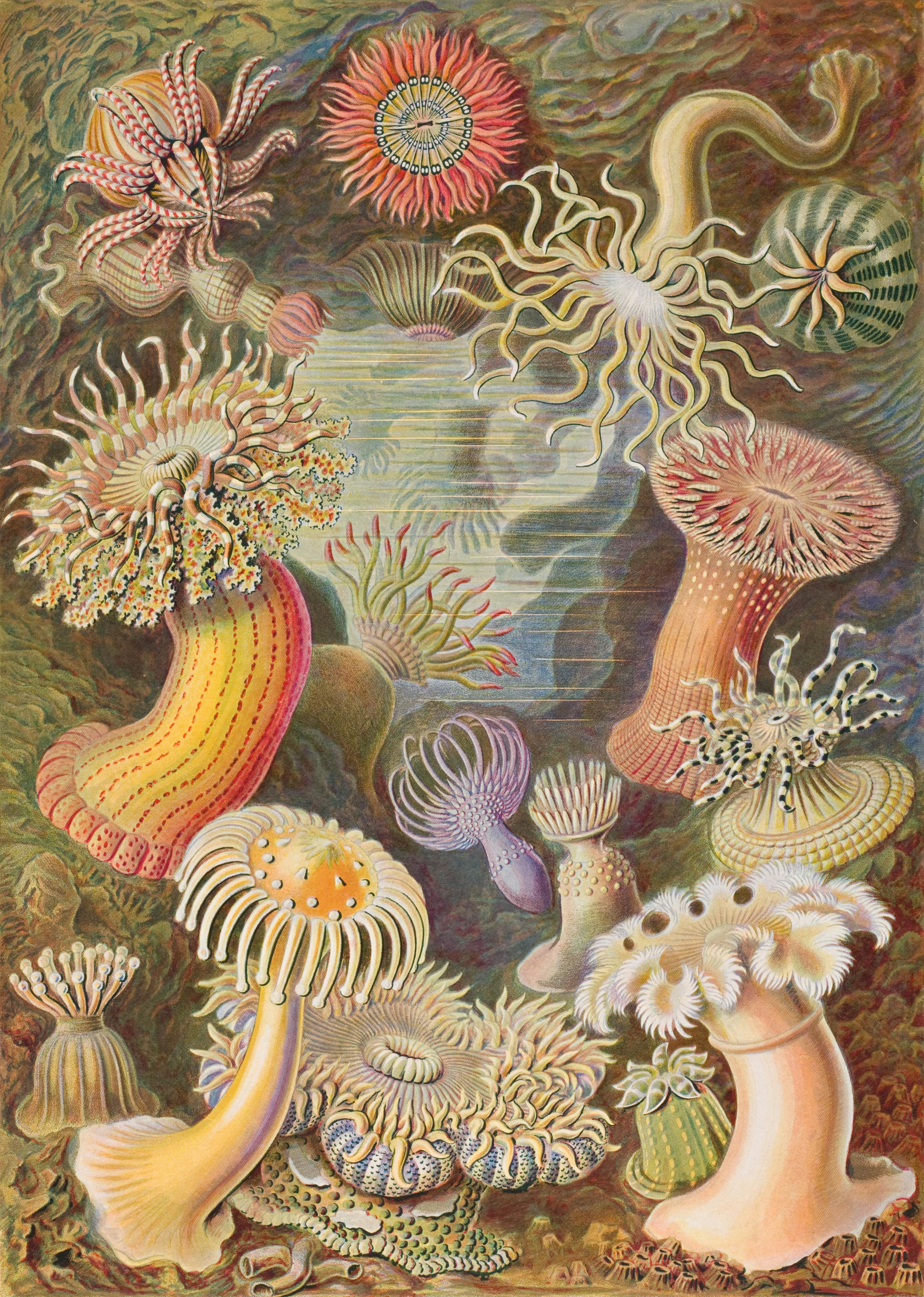 Heliactis bellis (Thompson) = Cereus pedunculatus (Pennant, 1777) Mesacmaea stella [sic] (Andres) = Mesacmaea stellata (Andrès, 1881) Aiptasia Couchii (Gosse) = Aiptasia mutabilis (Gravenhorst, 1831) Cylista impatiens (Dana) = Choriactis impatiens (Couthouy in Dana, 1846) Bunodes thallia (Gosse) = Anthopleura thallia (Gosse, 1854) Metridium praetextum (Couthouy) = Actinostella flosculifera (Lesueur, 1817) Heliactis troglodytes (Thompson) = Sagartia troglodytes (Price, 1847) Anthea cereus (Gosse) = Anemonia sulcata (Pennant, 1777) Aiptasia undata (Martens) = Aiptasia diaphana (Rapp, 1829) Aiptasia diaphana (Andres) = Aiptasia diaphana (Rapp, 1829) Bunodes monilifera (Dana) = Paractis monilifera (Drayton in Dana, 1846) Corynactis viridis (Allman) = Corynactis viridis Allman, 1846 Metridium concinnatum (Dana) = Oulactis concinnata (Drayton in Dana, 1846) Sagartia chrysoplenium (Gosse) = Chrysoela chrysosplenium (Cocks in Johnston, 1847) Actinoloba dianthus (Blainville) = Metridium senile (Linnaeus, 1761)